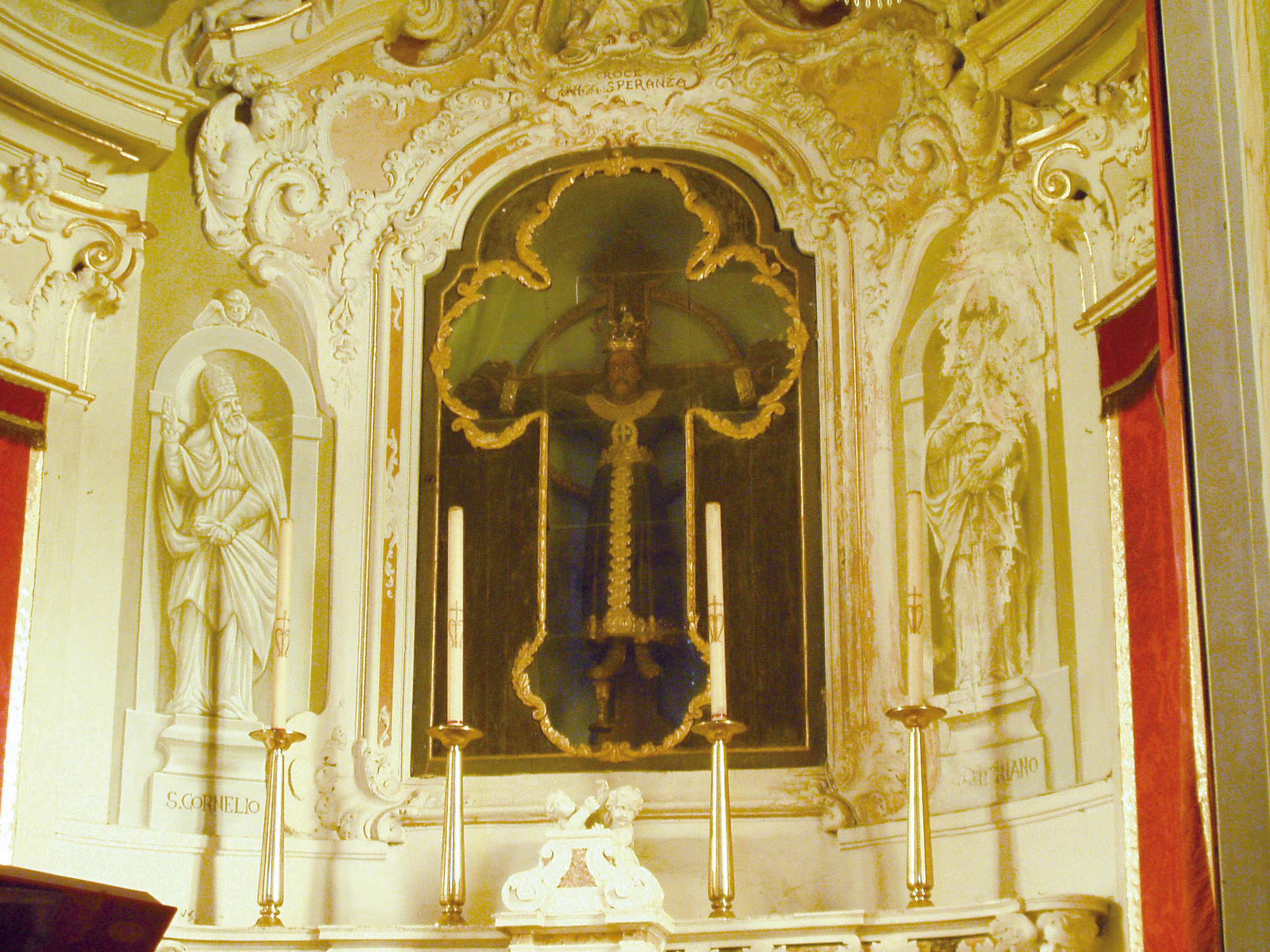 Beverino (La Spezia), Church of Saints Cornelius and Cyprian. Polychrome (probably woody) statue of the Volto Santo di Lucca, alongside the saints made using the technique of the grisaille, under a cartouche which reads: "Croce della Speranza" (Cross of Hope).